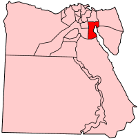 Map of Egypt showing As Suways (Suez) governorate. Made by User:Golbez based on PD maps.